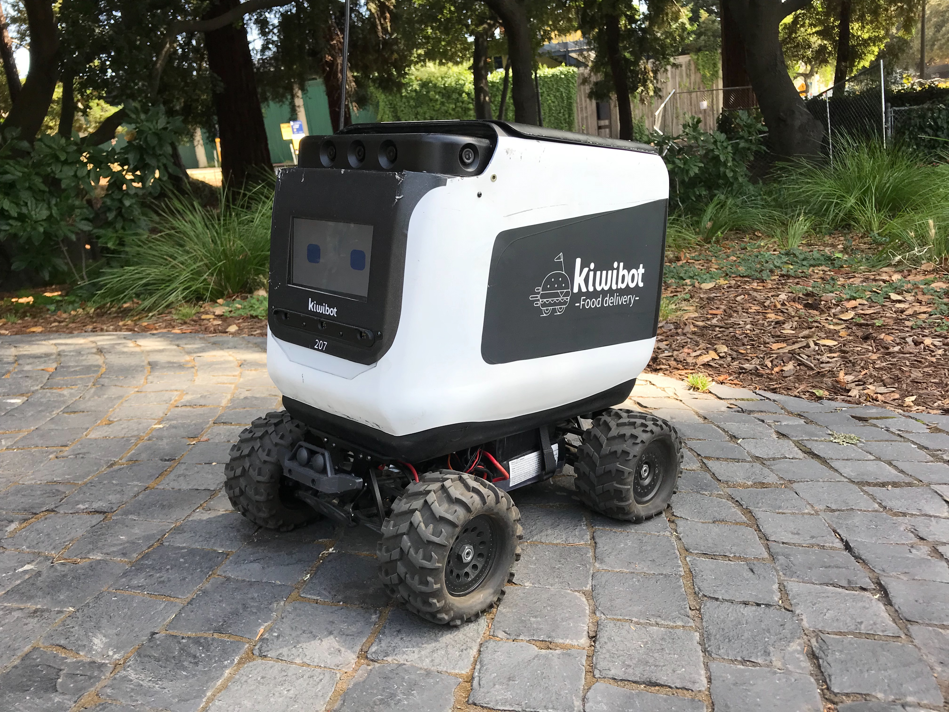 Front view of a Kiwibot food delivery robot, taken at University of California, Berkeley at the western end of Grinnel Pathway. Blue Kiwibot flag above robot not shown.